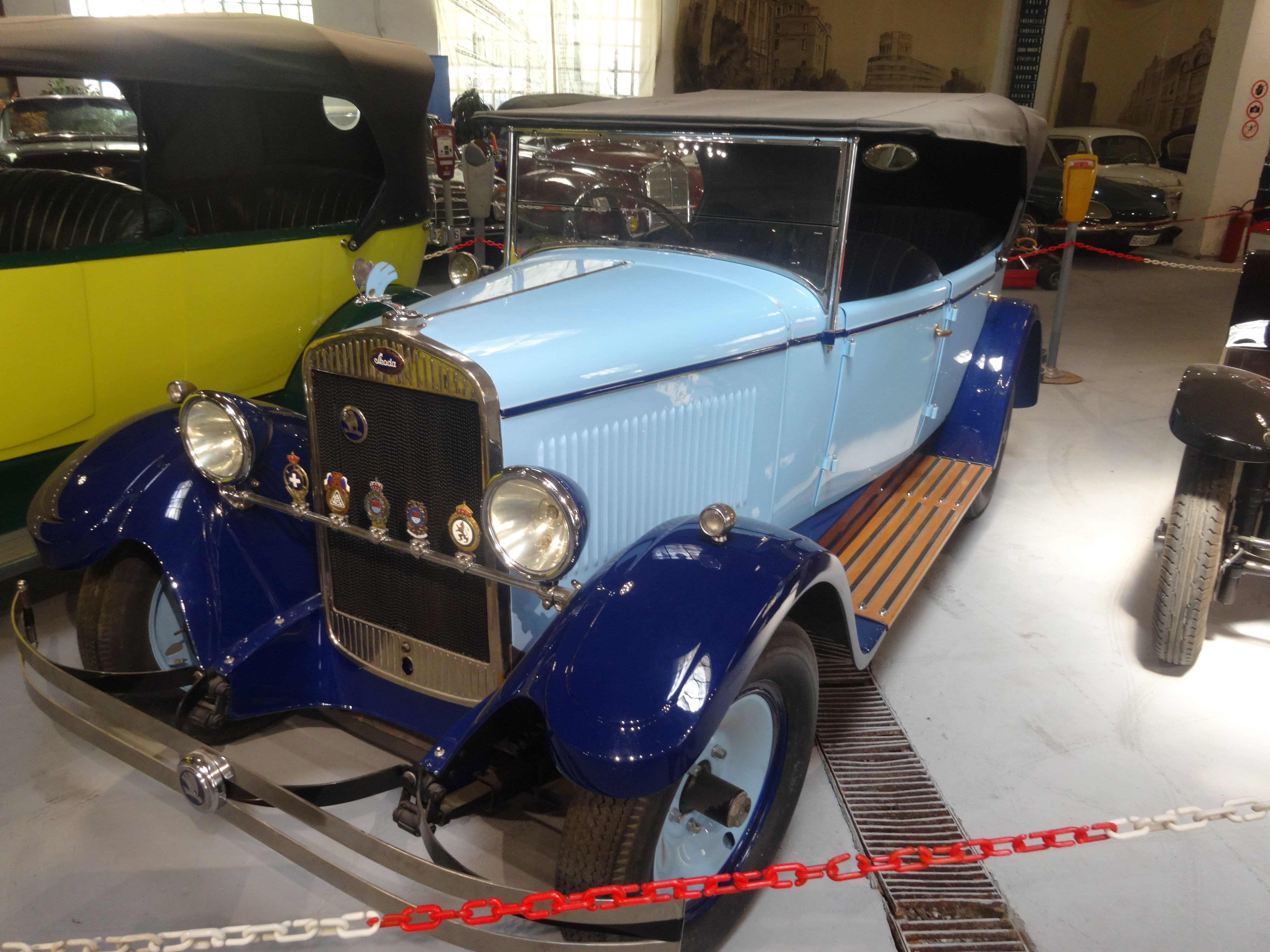 Engine: four cylinder Capacity: 1661 cm3 Power: 30 hp/2600 rpm. Max. speed: 80 km/h Transmission: three speed+reverse